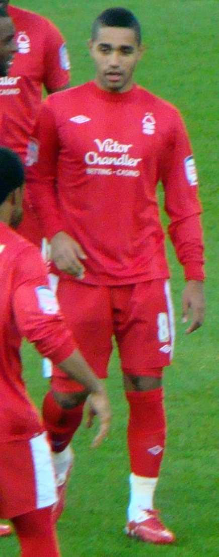 Lewis McGugan cropped from 20/11/10 Cardiff V Nottingham Forest, Championship, Cardiff City Stadium, Cardiff, Wales